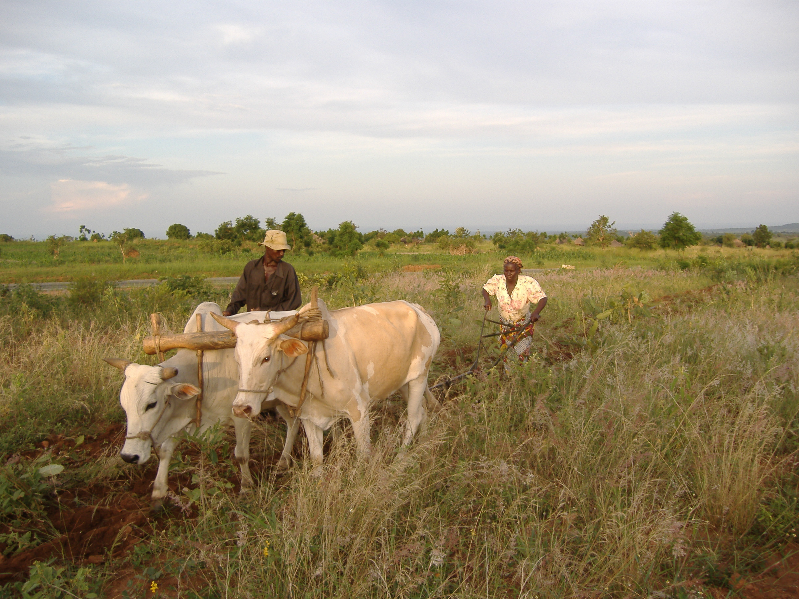 This is a photo of farmers in Northern Region of Uganda. The village worked in partnership with North American development agencies to obtain the oxen to generate income and general sustainability. It was taken in the fall of 2006 by Davis Omanyo/Michael Shade.